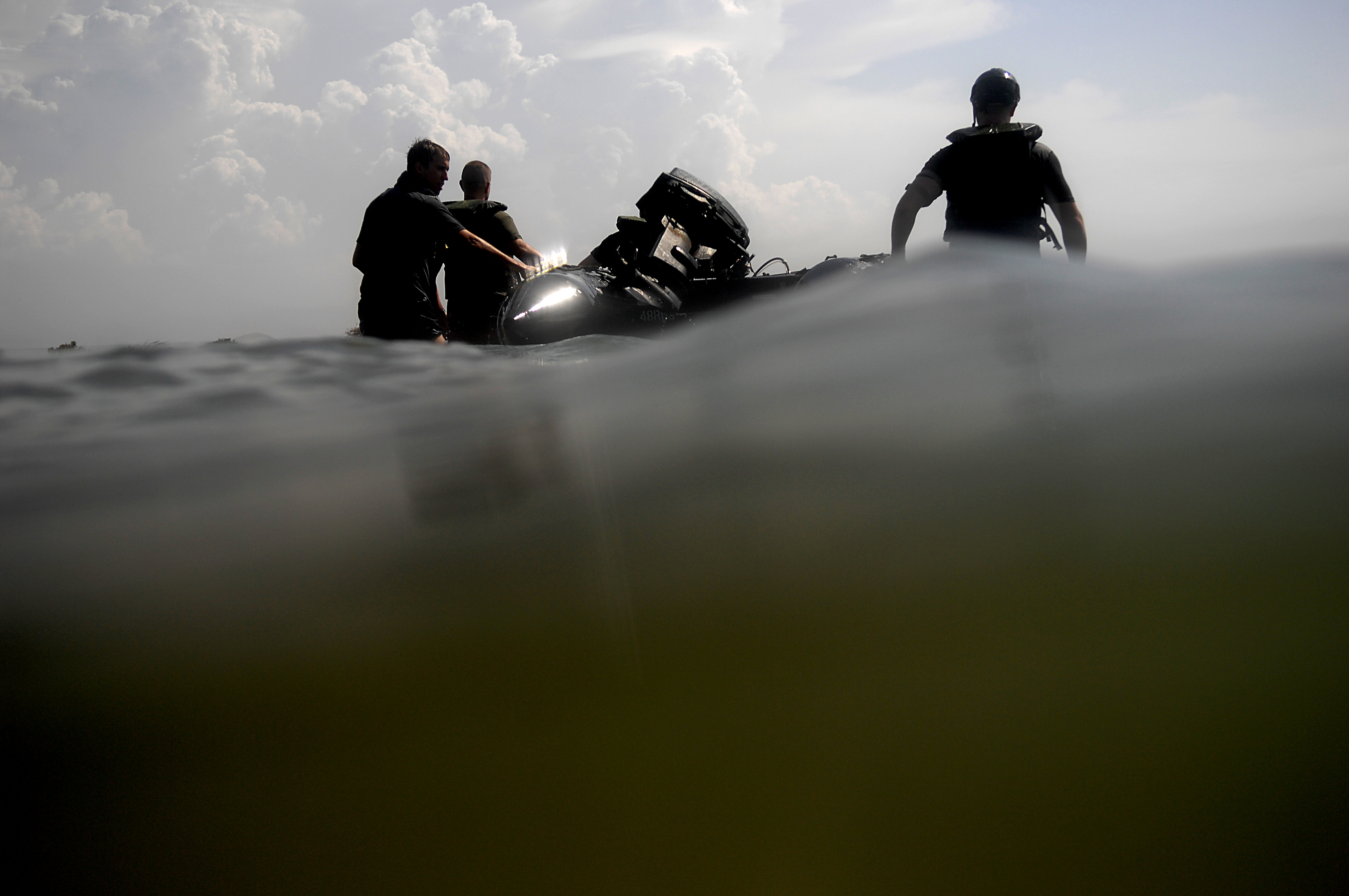 U.S. Air Force Pararescuemen from the 82nd Expeditionary Rescue Squadron, Davis-Monthan Air Force Base, Ariz., walk their zodiac to the beach after jumping out of an CH-53E Super Stallion helicopter from Marine Heavy Helicopter Squadron 464 out of Marine Corps Air Station in Jacksonville, N.C., into the Gulf of Aden during a training mission May 31, 2008, The Pararescuemen are deployed to Combined Joint Task Force- Horn of Africa at Camp Lemonier, Djibouti.